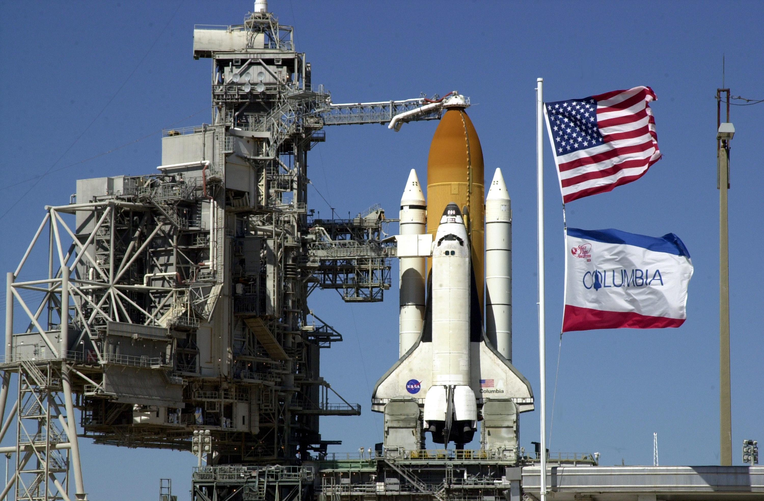 The Rotating Service Structure is rolled back from Space Shuttle Columbia in preparation for launch Feb. 28, 2002, at 6:48 a.m. EST (11:48 GMT) on mission STS-109. Flags of the U.S. and the orbiter (foreground) illustrate the brisk winds blowing at Launch Complex 39A. In the photo is seen the Orbiter Access Arm stretched to Columbia's cockpit. A Hubble Servicing Mission, the goal of STS-109 is to replace Solar Array 2 with Solar Array 3, replace the Power Control Unit, remove the Faint Object Camera and install the ACS, install the Near Infrared Camera and Multi-Object Spectrometer (NICMOS) Cooling System, and install New Outer Blanket Layer insulation.